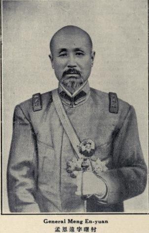 Meng Enyuan, Shucun (1859 - 1933)